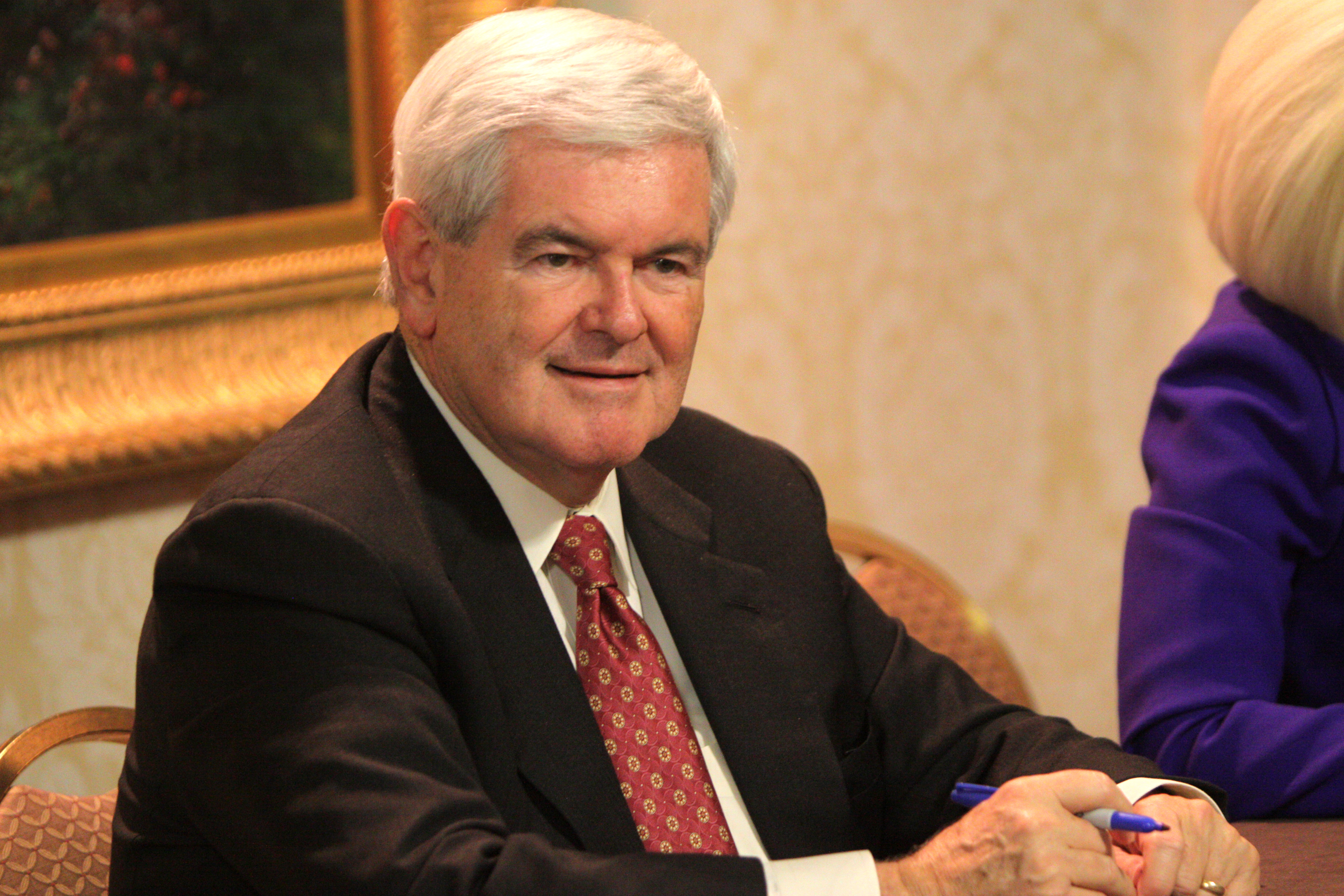 Gingrich at a book signing during his campaign Former Speaker Newt Gingrich, and his wife Callista, at a book signing at the Values Voter Summit in Washington, DC.